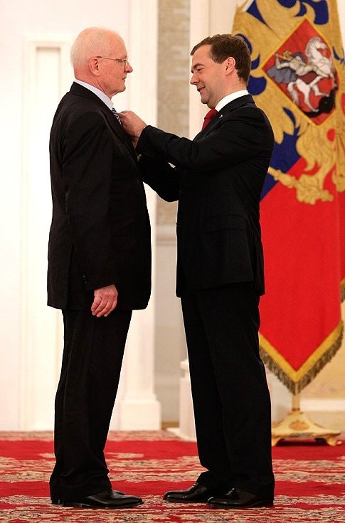 Dmitry Medvedev and Valery Chissov at State Prize of the Russian Federation awarding